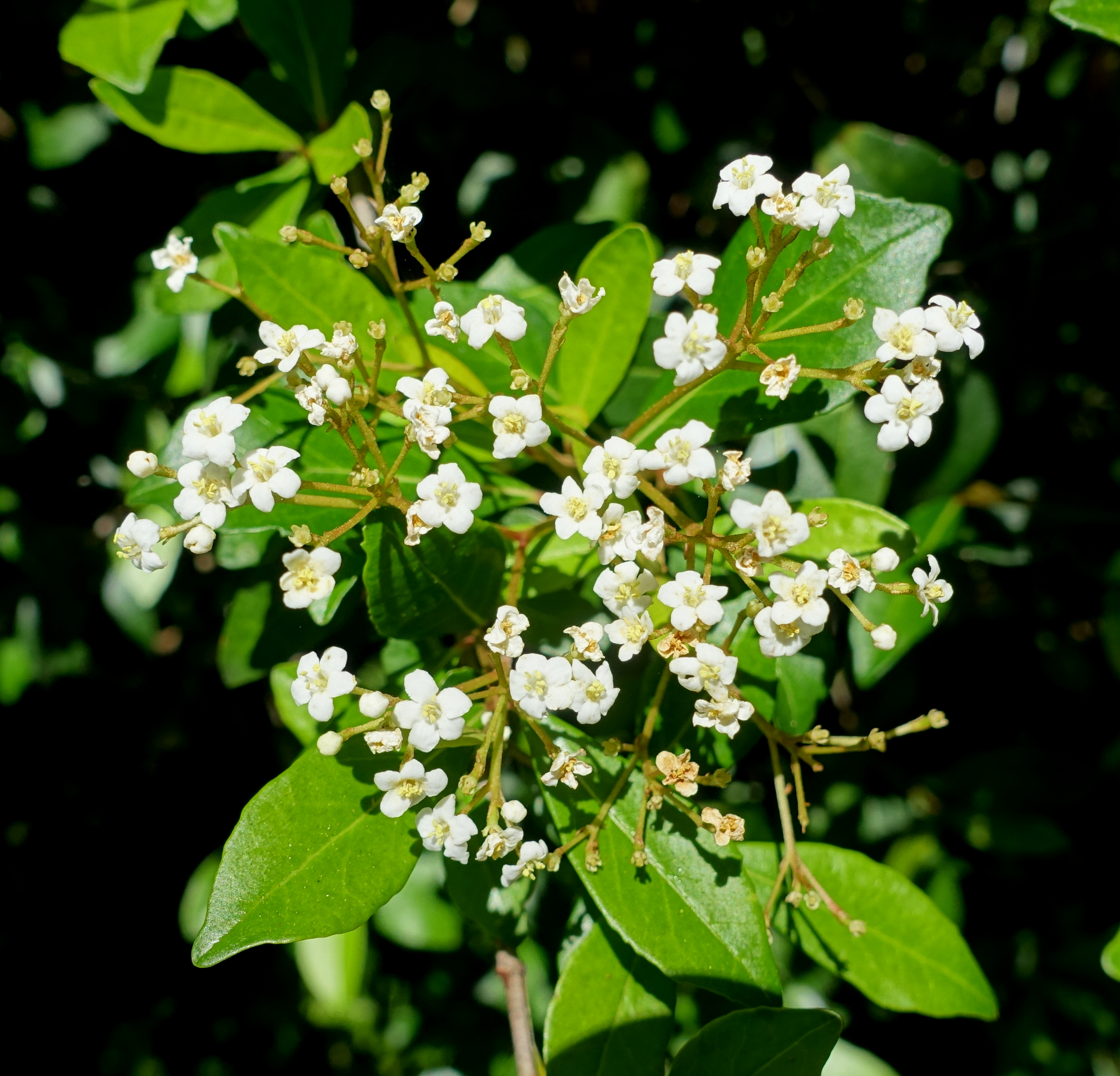 Botanical specimen in the Marie Selby Botanical Gardens - Sarasota, Florida, USA.